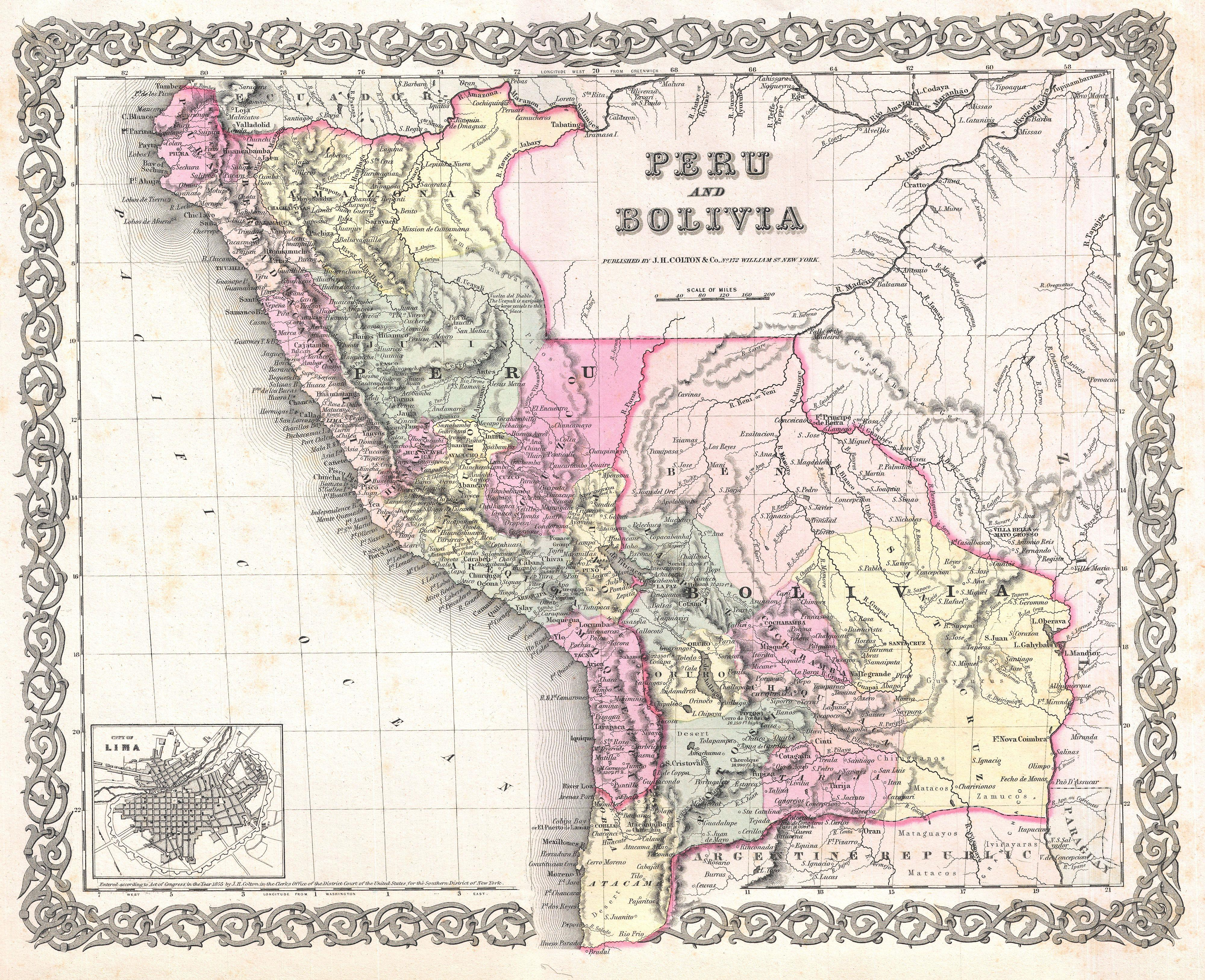 An excellent first edition example of Colton's rare 1855 map Peru and Bolivia. Covers from Ecuador to the Argentine Republic and from the Pacific to Brazil. Shows Bolivia's claims to the Atacama desert and Peru's claims to Moquegua - both of which are today part of Chile. An inset detail map of Lima, Peru, appears in the lower left quadrant. Throughout the map Colton identifies various cities, towns, forts, rivers, rapids, fords, and an assortment of additional topographical details. Map is hand colored in pink, green, yellow and blue pastels to define national and regional boundaries. Surrounded by Colton's typical spiral motif border. Dated and copyrighted to J. H. Colton, 1855. Published as page no. 60 in volume 1 of the first edition of George Washington Colton's 1855 Atlas of the World .